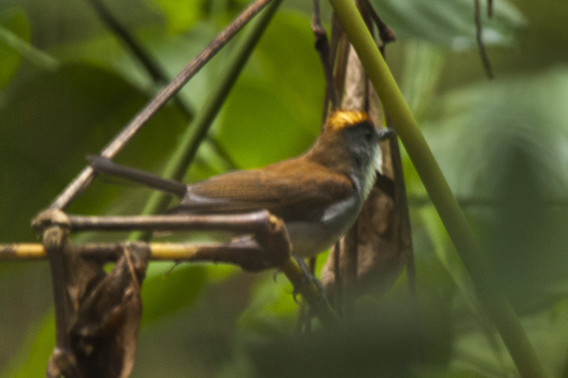 Fire-crested Alethe - Uganda_H8O5536